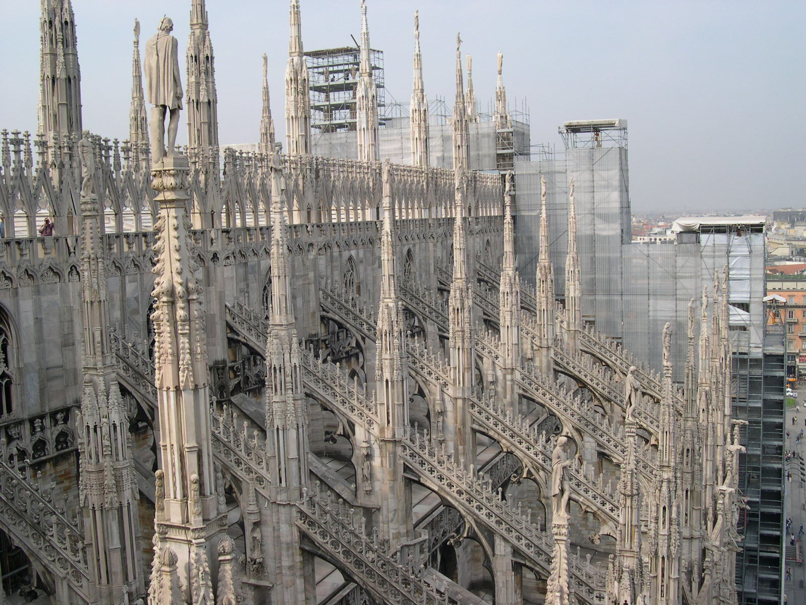 View from the Duomo (Cathedral) in Milan (Italy).